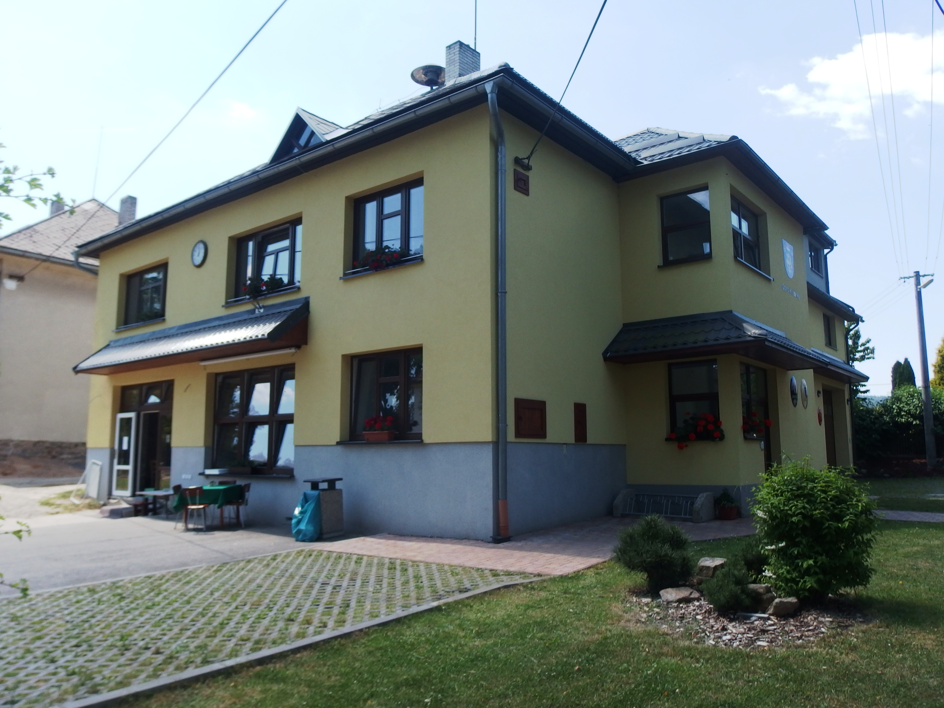 Křižánky, Žďár nad Sázavou District, Czech Republic, part Moravské Křižánky.